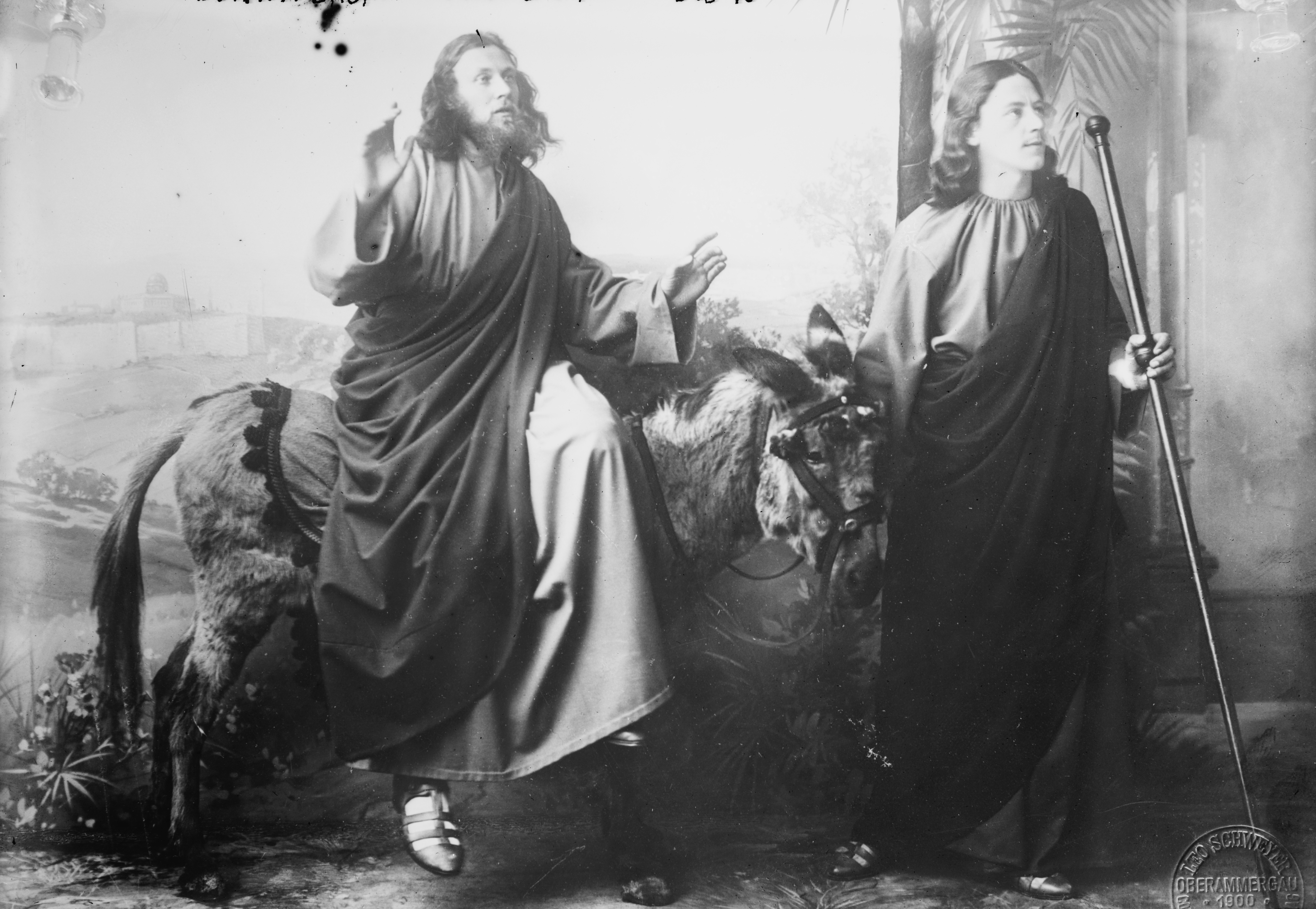 Entry into Jerusalem; Christ (played by Anton Lang) and John, with donkey; at the Oberammergau passion play, Bavaria, Germany, 1900